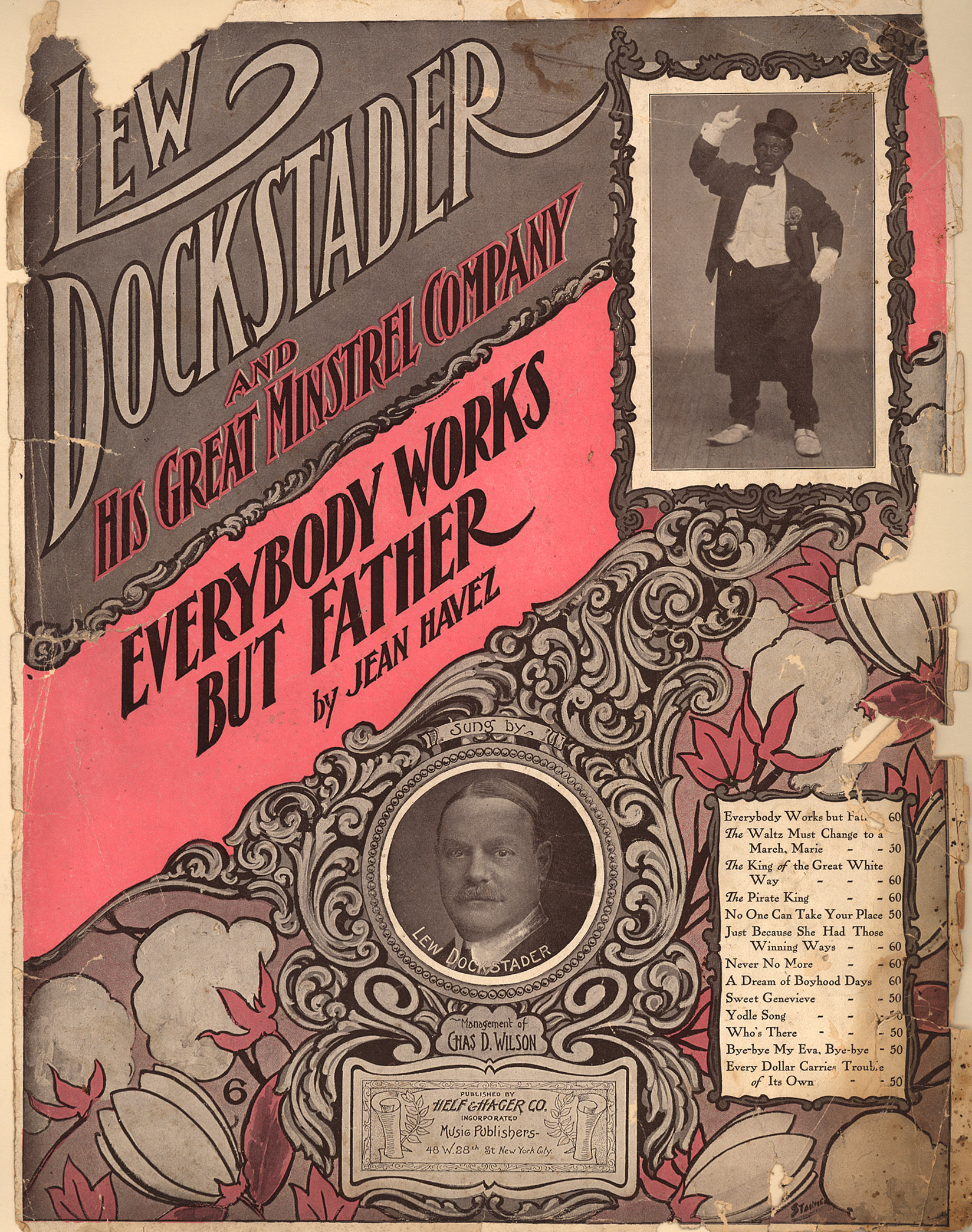 Cover of sheet music "Everybody Works But Father", with two photos of Vaudeville performer Lew Dockstader, one in blackface.